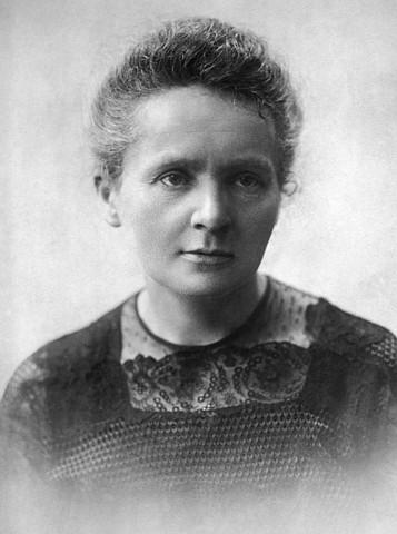 Depicted person: Marie Curie